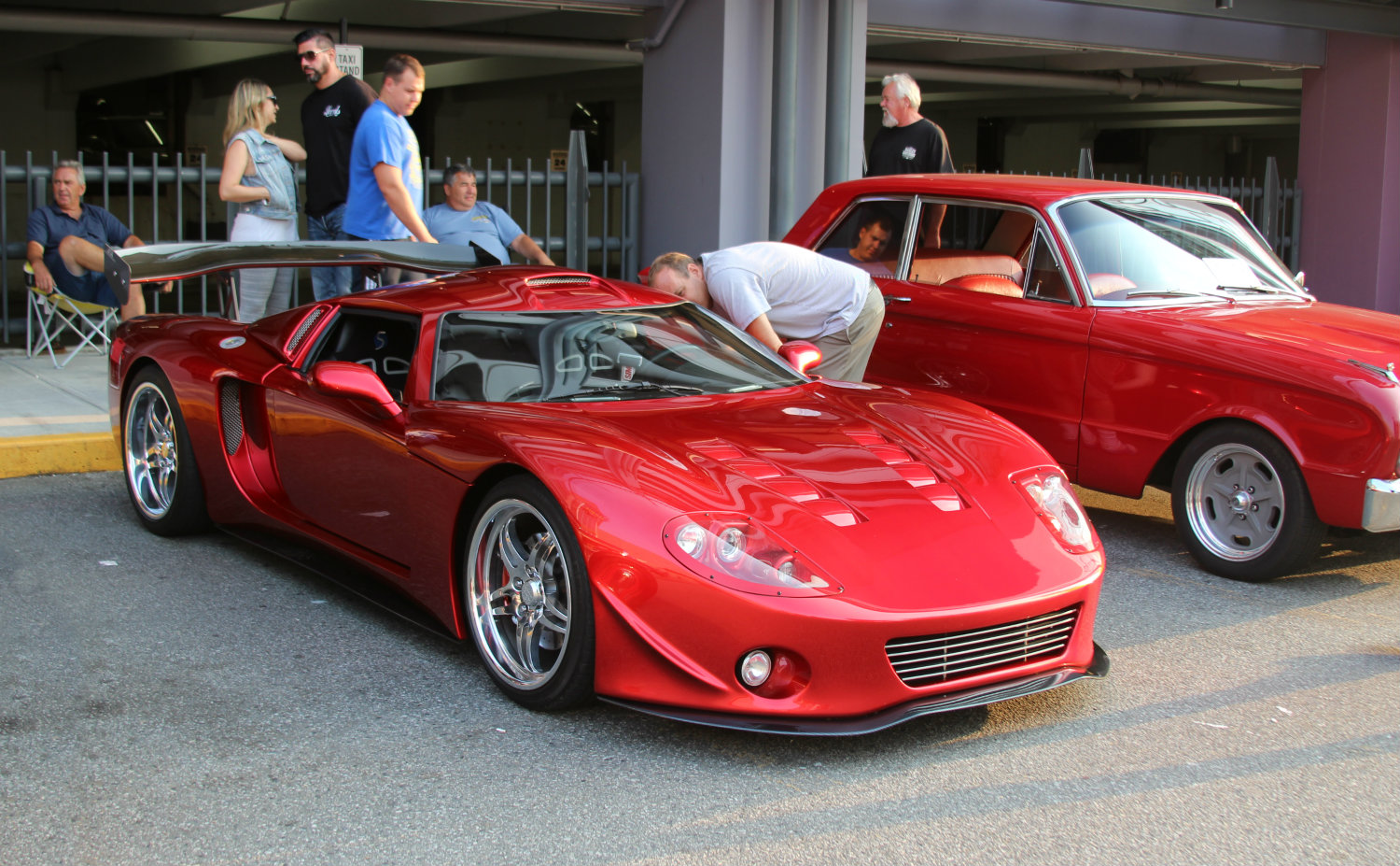 A rather unexpected car to come across.